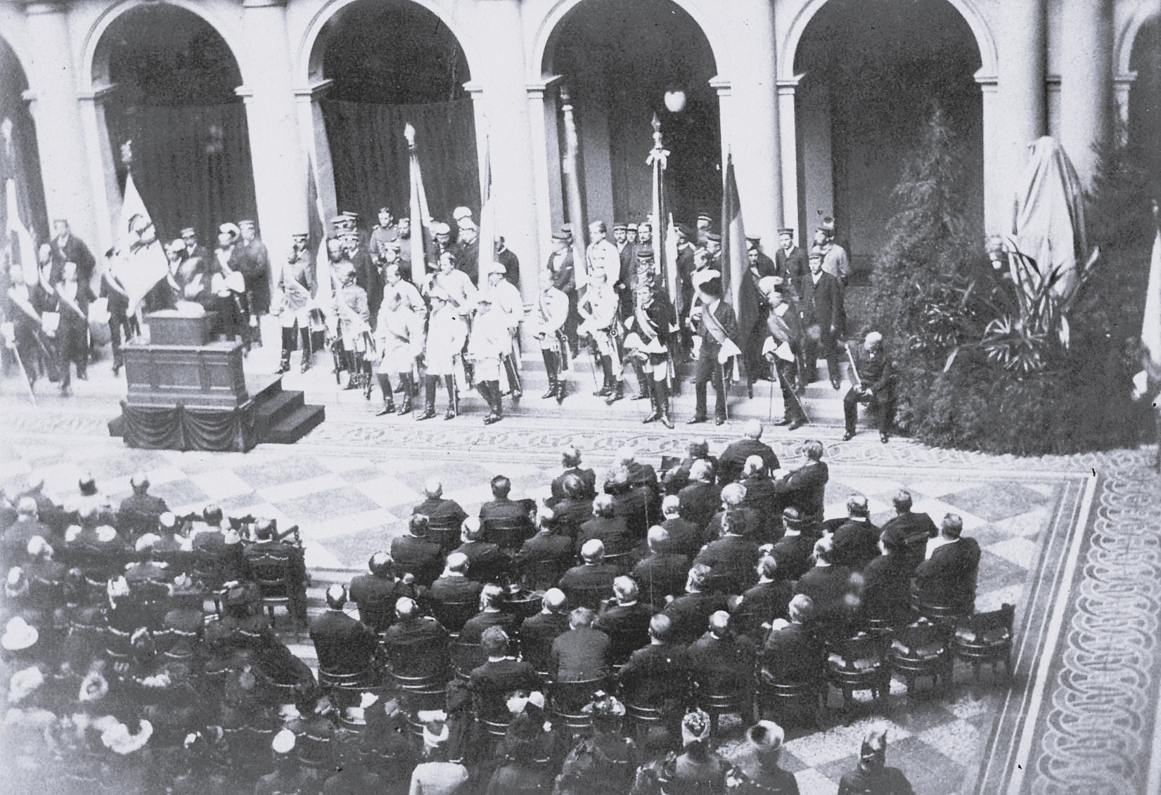 Visits of Kaiser Wilhelm I. at the University of Strasbourg, in 1886.